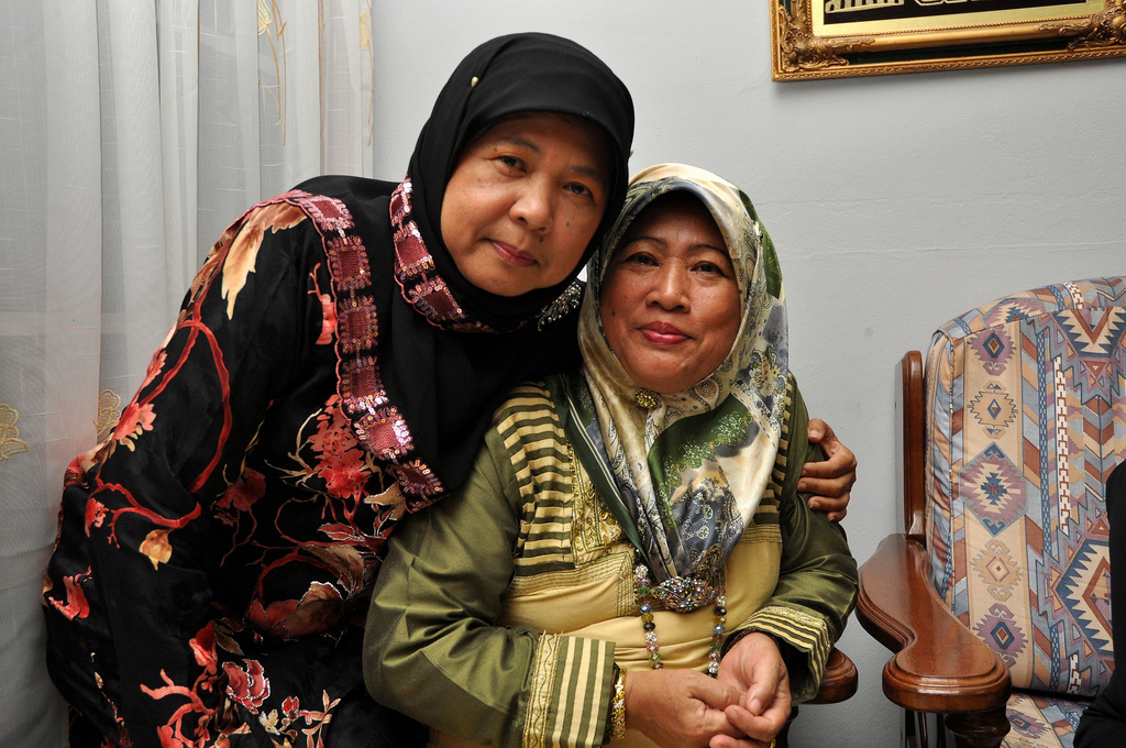 Two Muslim women in colourful tudungs (the Malay language term for the Islamic headscarf) at an engagement party in Brunei.